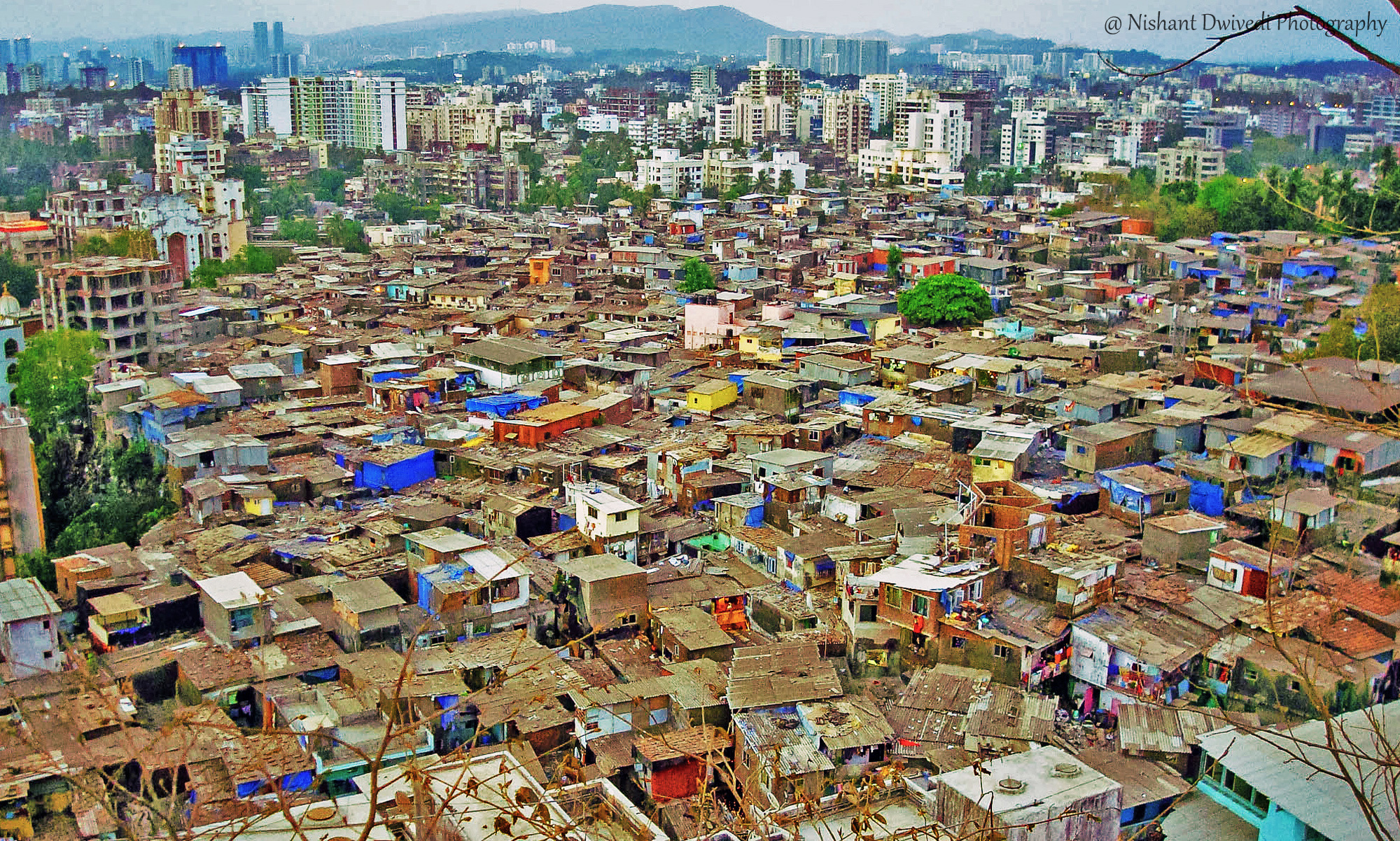 Slums and the corporate buildings- Mumbai- The financial capital of India The cosmopolitan city which has it all- Mumbai also known as ‘Maya Nagari’ because of its Money, Fashion, Luxury and Films etc. But still 60 per cent of Mumbai is staying in slums and even brick and cement houses built in unplanned manner with limited access to civic amenities. They live together eat together and work together to make it what it is today.